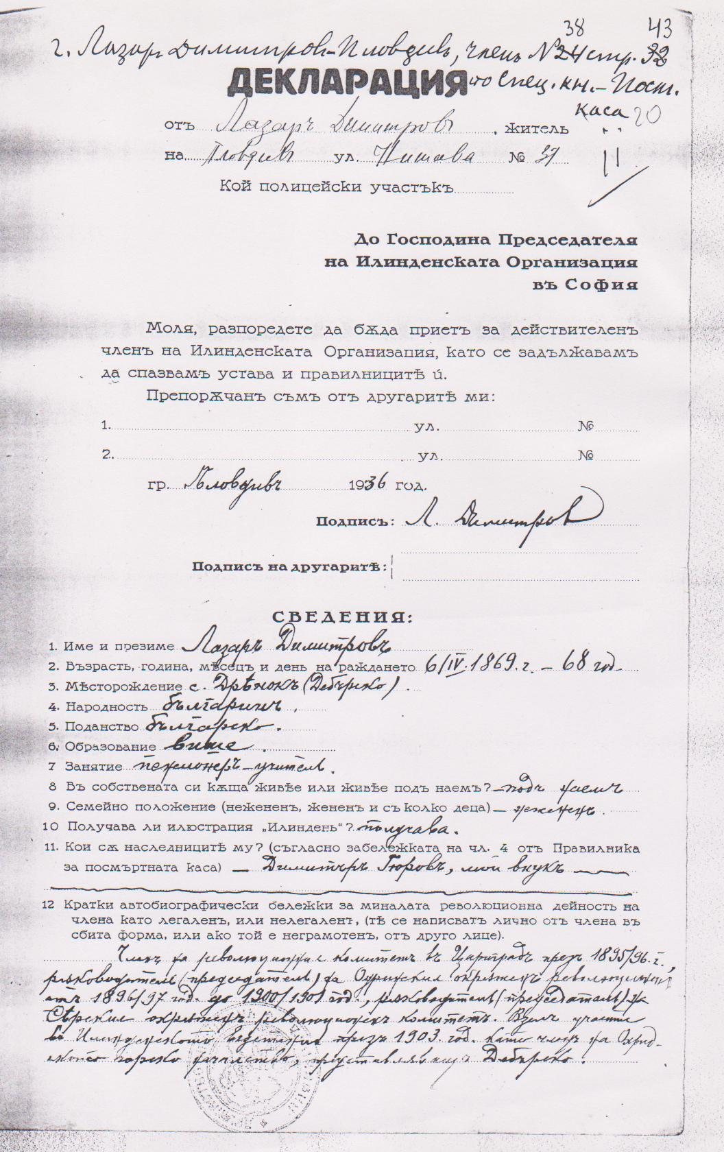 Declaration of Lazar Dimitrov on joining the Ilinden organization, 1936